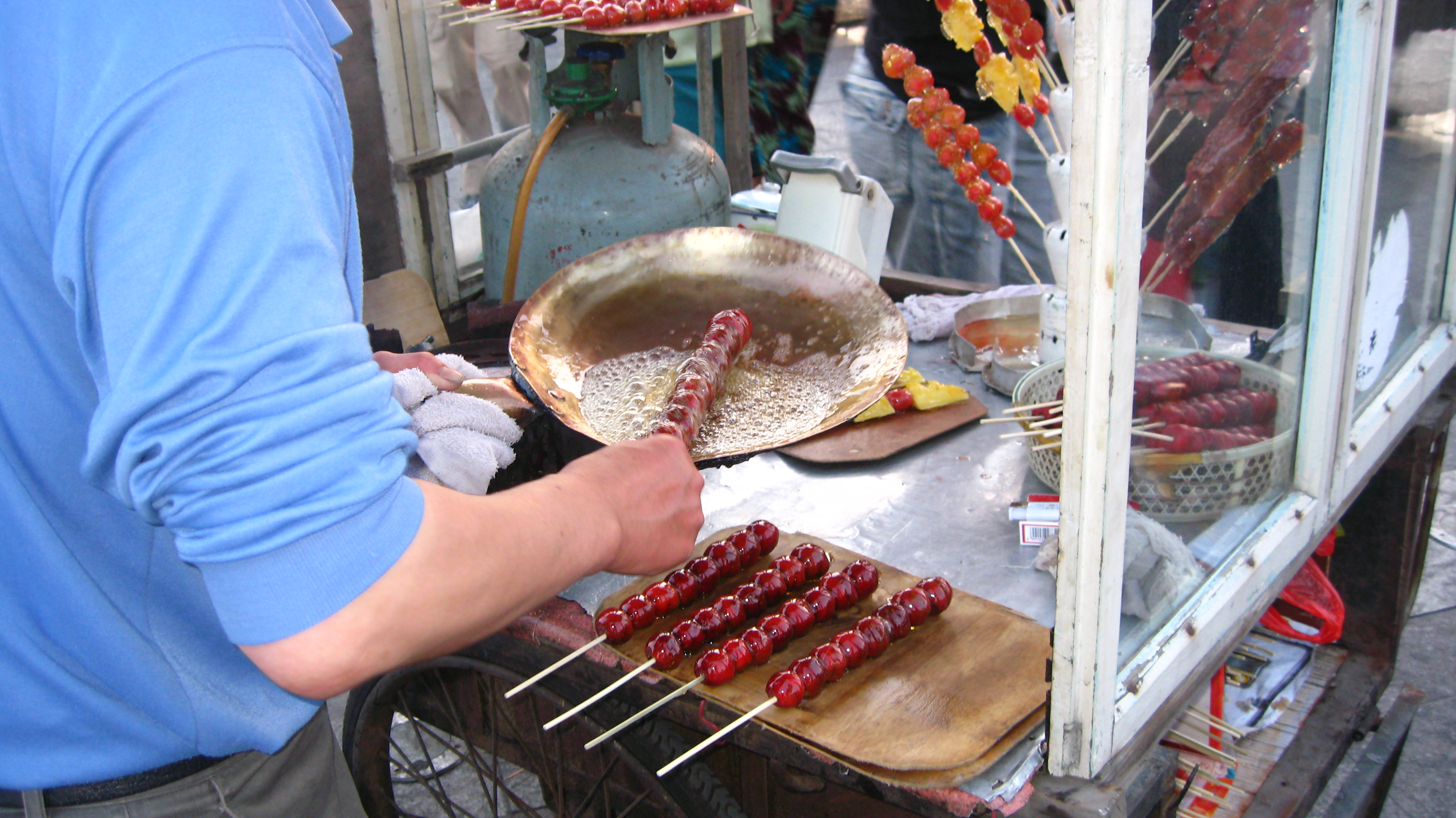 Man is making candied fruit for sale in Tianjin China